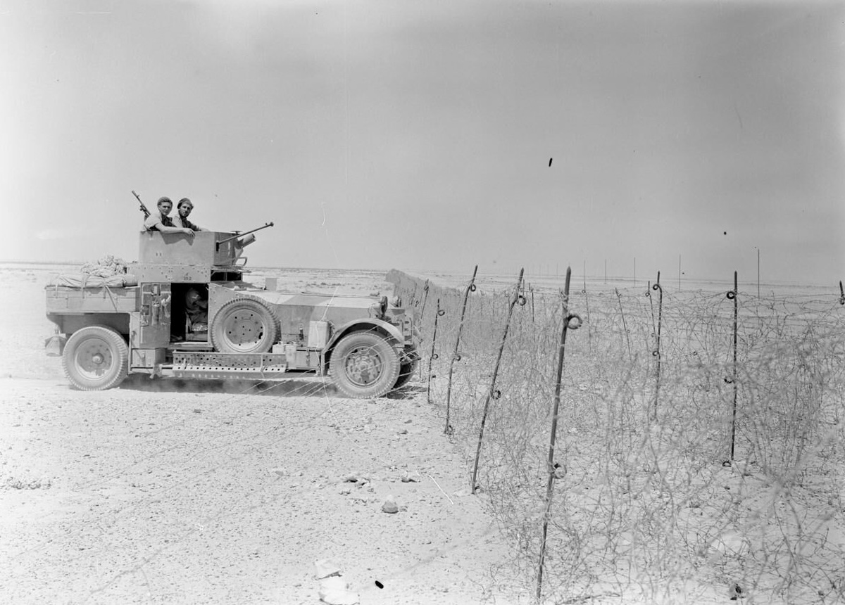 The British Army in North Africa 1940 A Rolls Royce armoured car passing through Italian barbed wire on the Egyptian-Libyan frontier, 26 July 1940. catalogue_number :E 378 database_number : 205203448 part_of : War Office Second World War Official Collection subjects: Associated themes British Army 1939-1945, North Africa 1939-1945